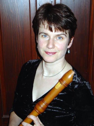 source: Rachel Begley